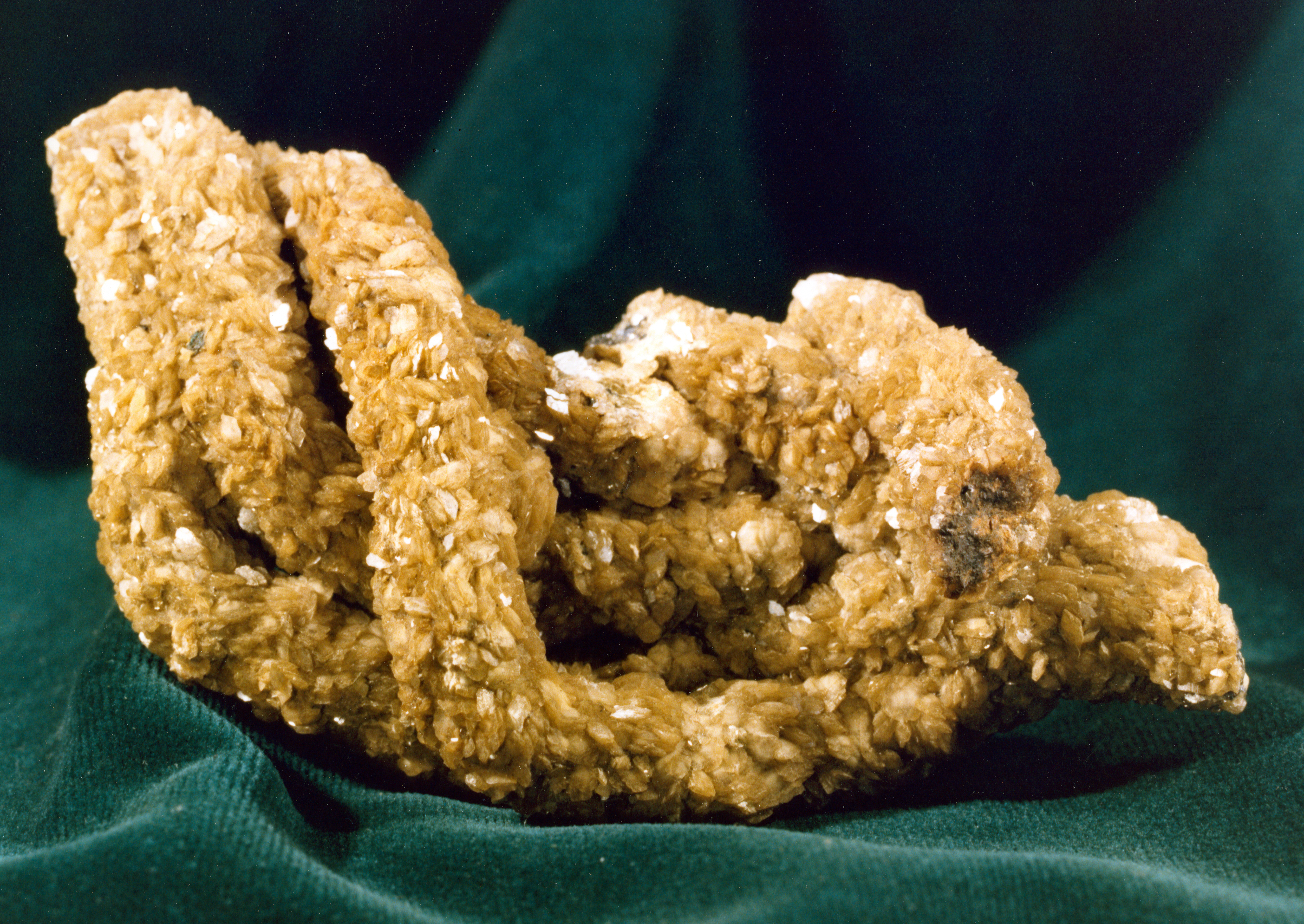 Siderite - Locality: White Raven Mine, Boulder County, Colorado - Bureau of Mines, Mineral Specimens C\01641.